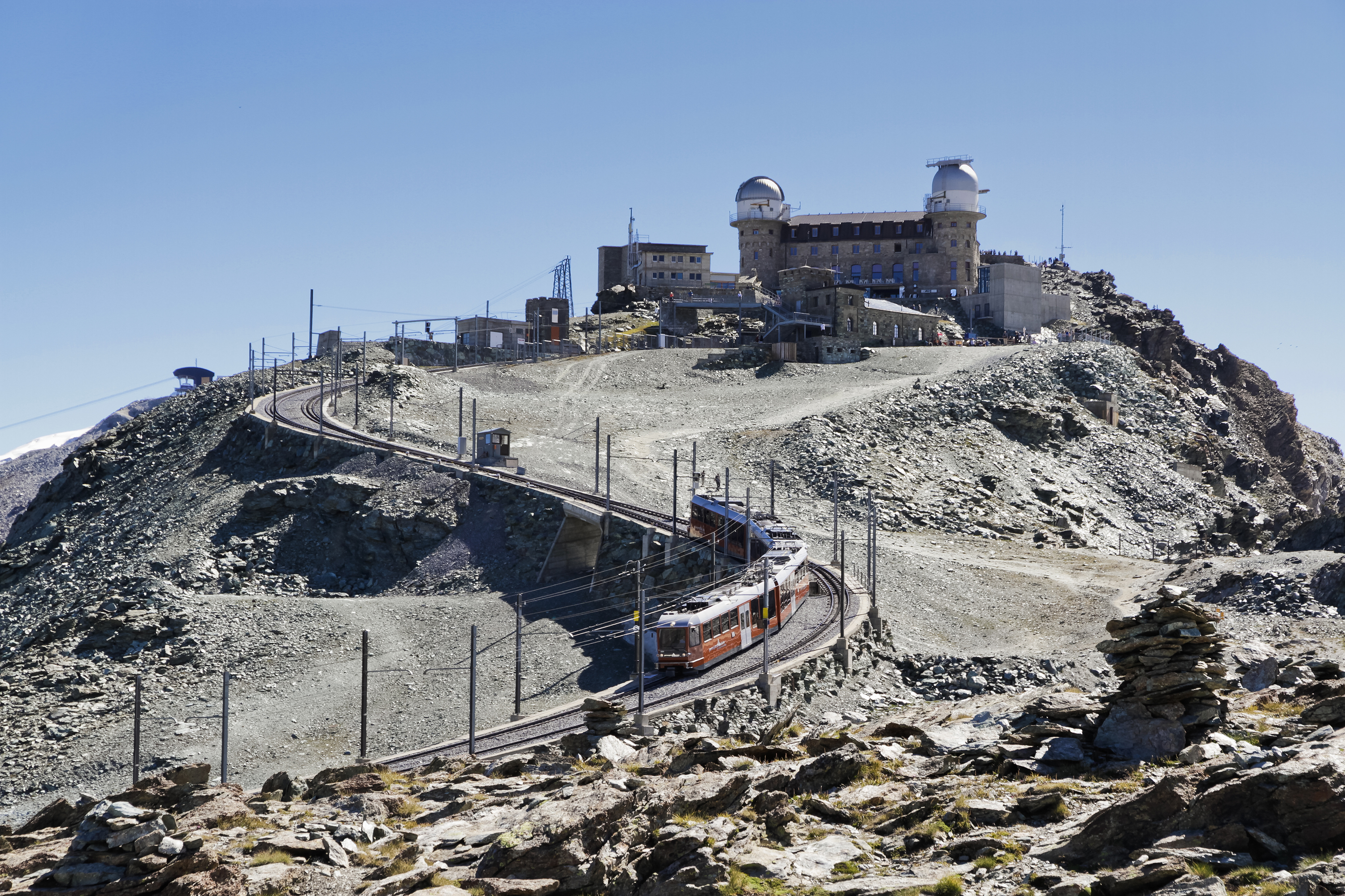 Gornergrat Kulm Hotel and observatory and Gornergratbahn train below in Gornergrat, Wallis, Switzerland in 2012 August.